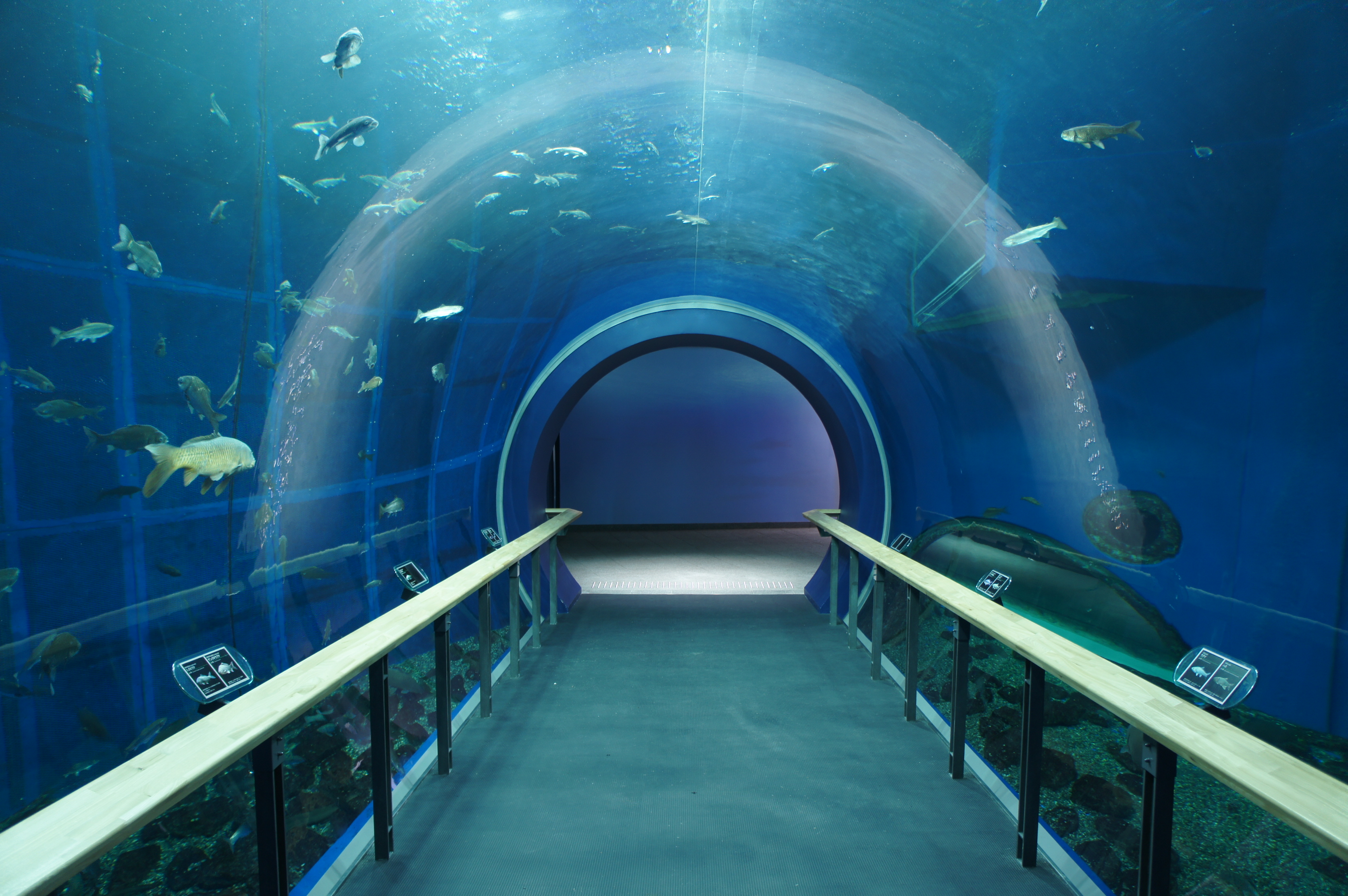 This is the most famous picture of Lake Biwa Aquarium.